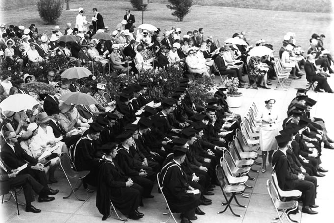 The ceremony was held out of doors, a feature of the open-air ceremony of the Sixties.